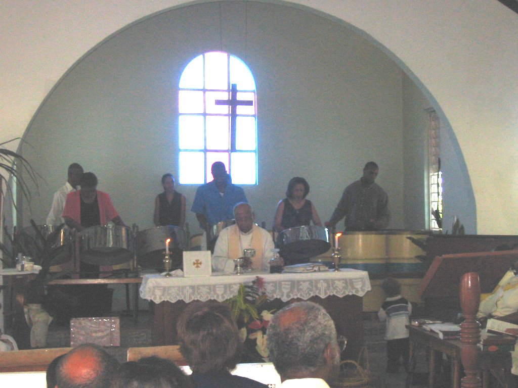 St. Matthews, Jacks Hill, St. Andrew, Jamaica. Harvest Communion 2004. Rev Canon Fr. Peter Mullings celebrant. Author, Gwyneth Davidson